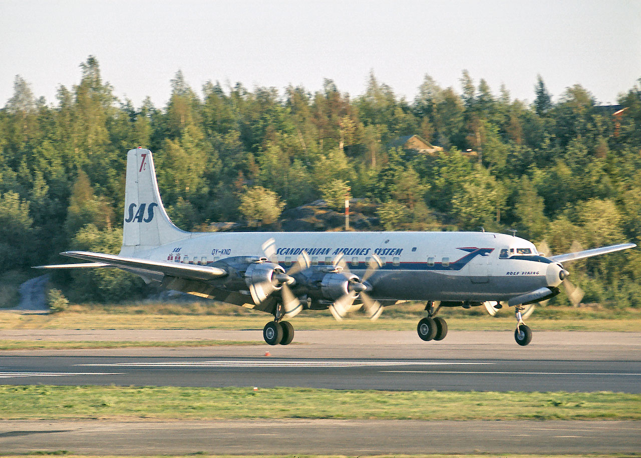 Scandinavian Airlines System (SAS) Douglas DC-7C Seven Seas OY-KND Rolf Viking at Stockholm-Bromma Airport.